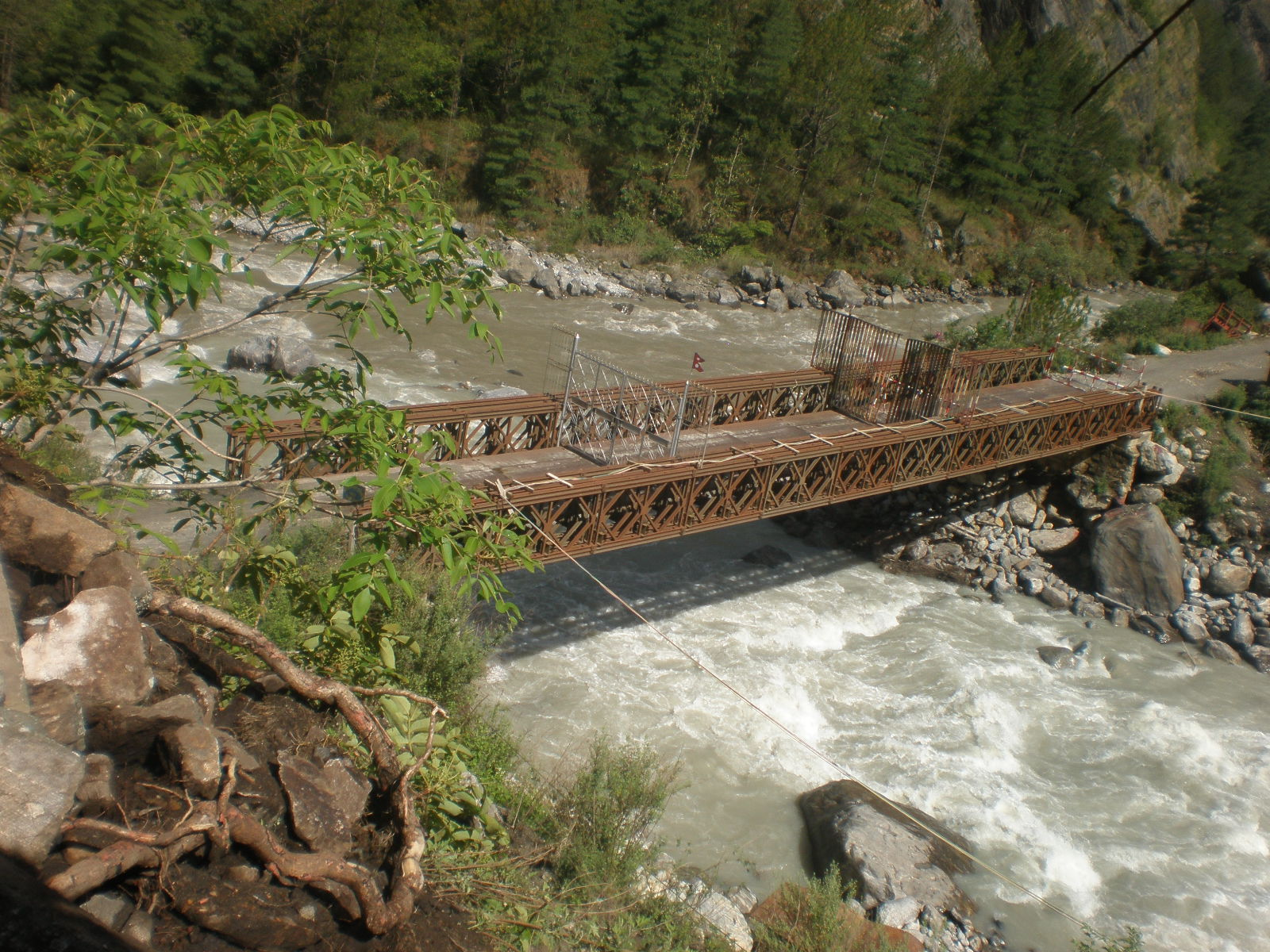 A bridge in Rasuwa District in Nepal China Border.